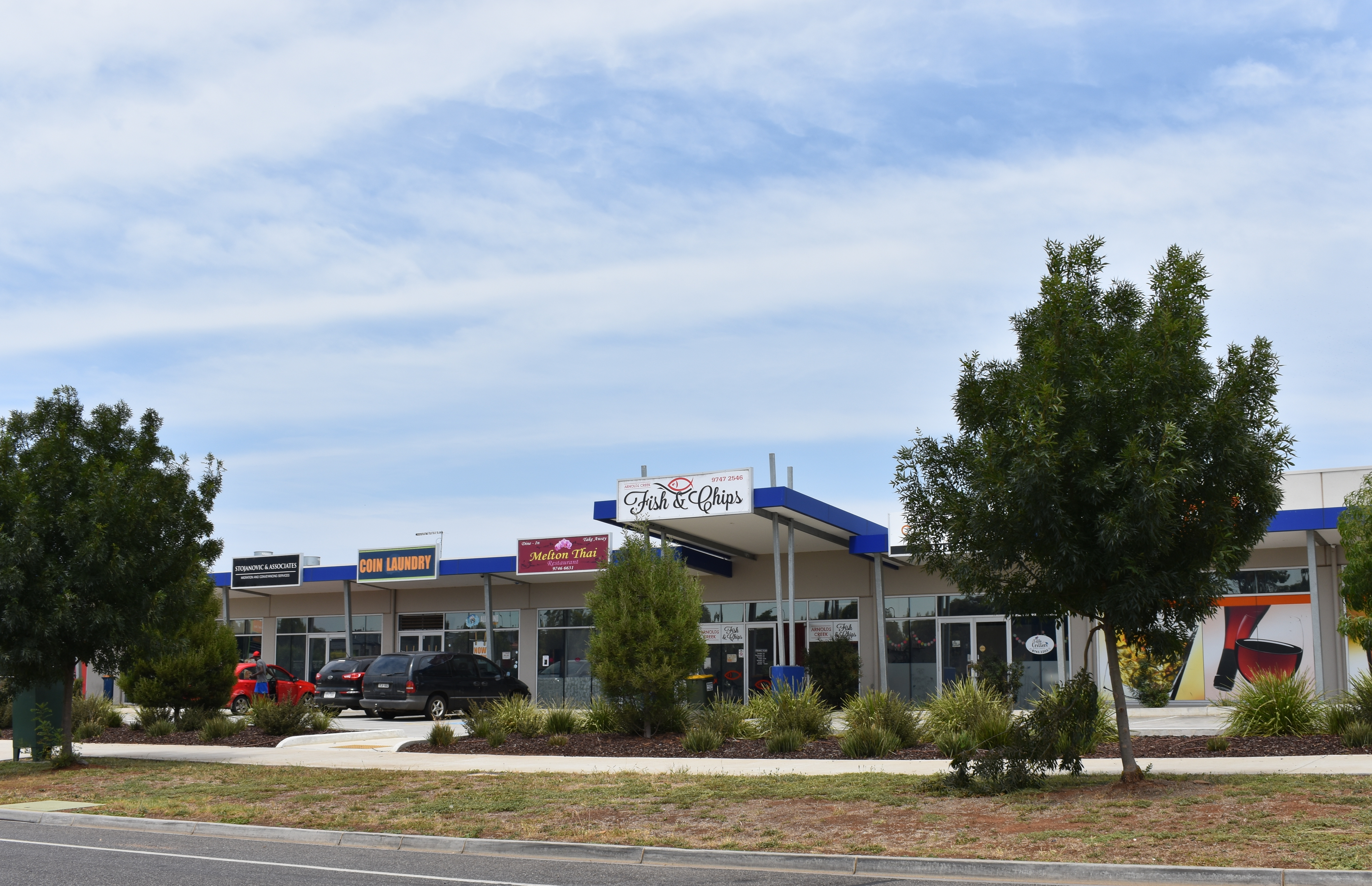 A small shopping centre at Harkness, Victoria